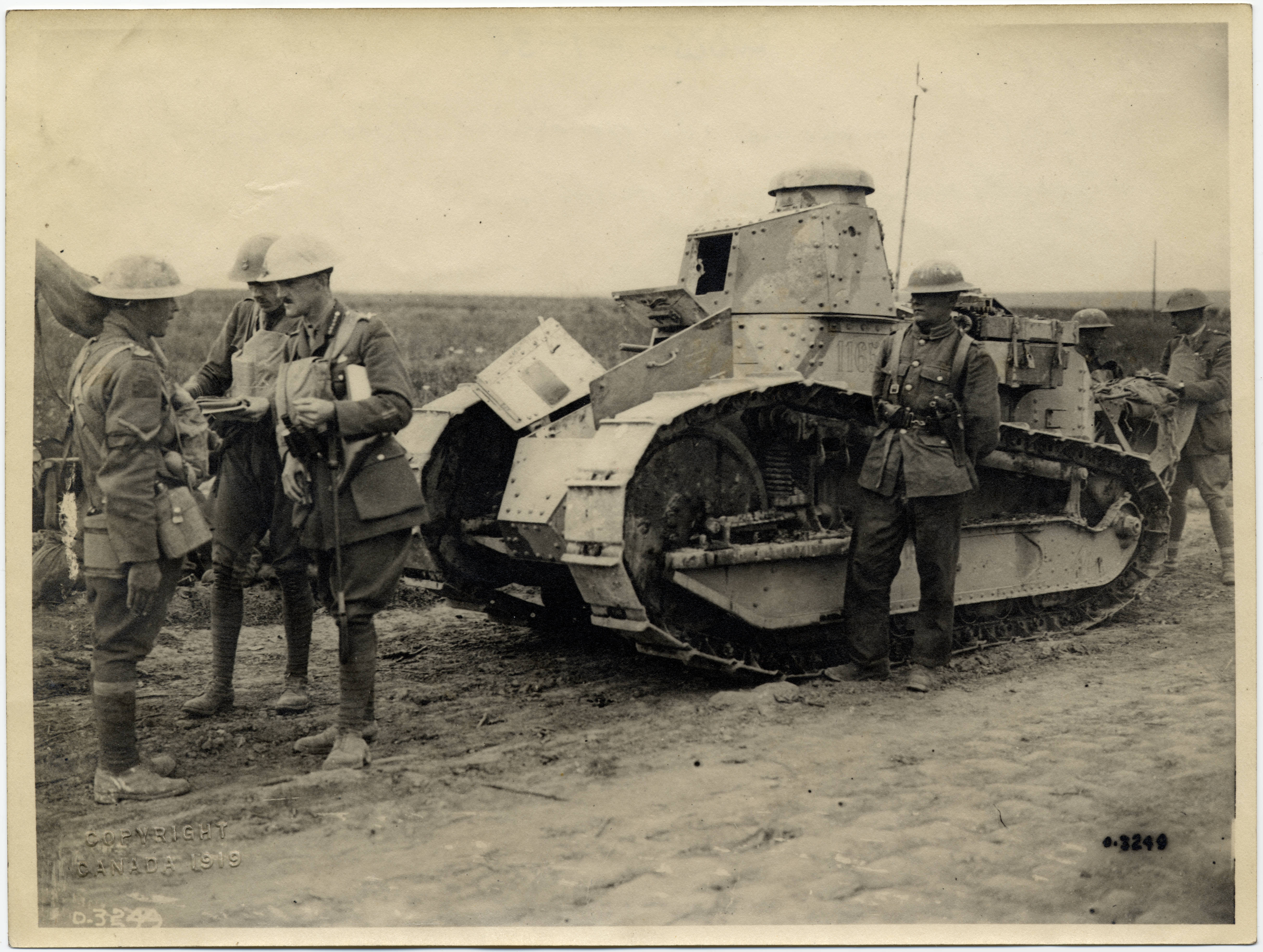 Item is a photograph from an album of World War One-related photographs in the William Okell Holden Dodds fonds. Brigadier General Dodds joined the Canadian Expeditionary Force in 1914 and was commanding officer of the 5th Canadian Division Artillery and served in France from 1917-1918.